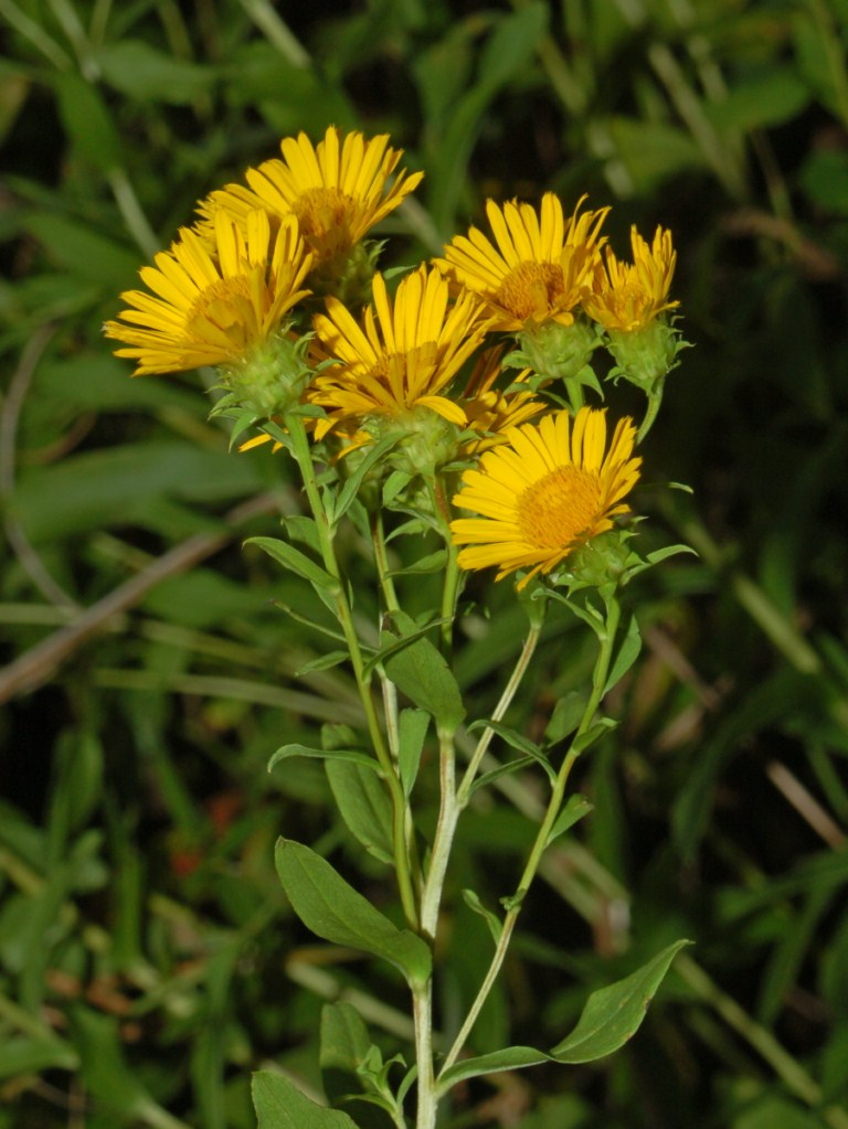 Inula spiraeifolia - Genova, Italy